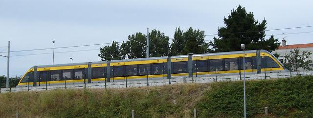 Train of the Porto Metro